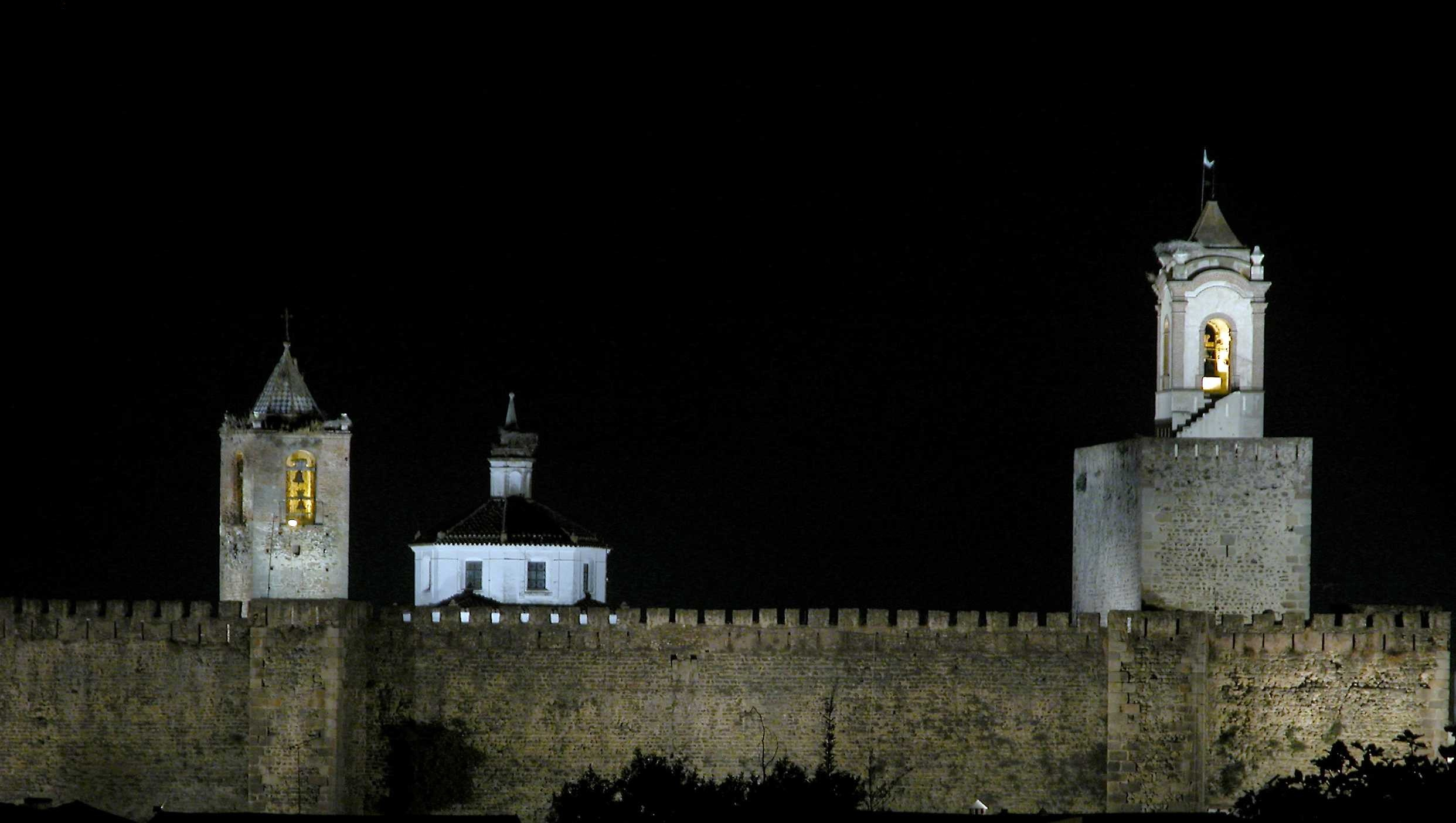 Castle of Fregenal